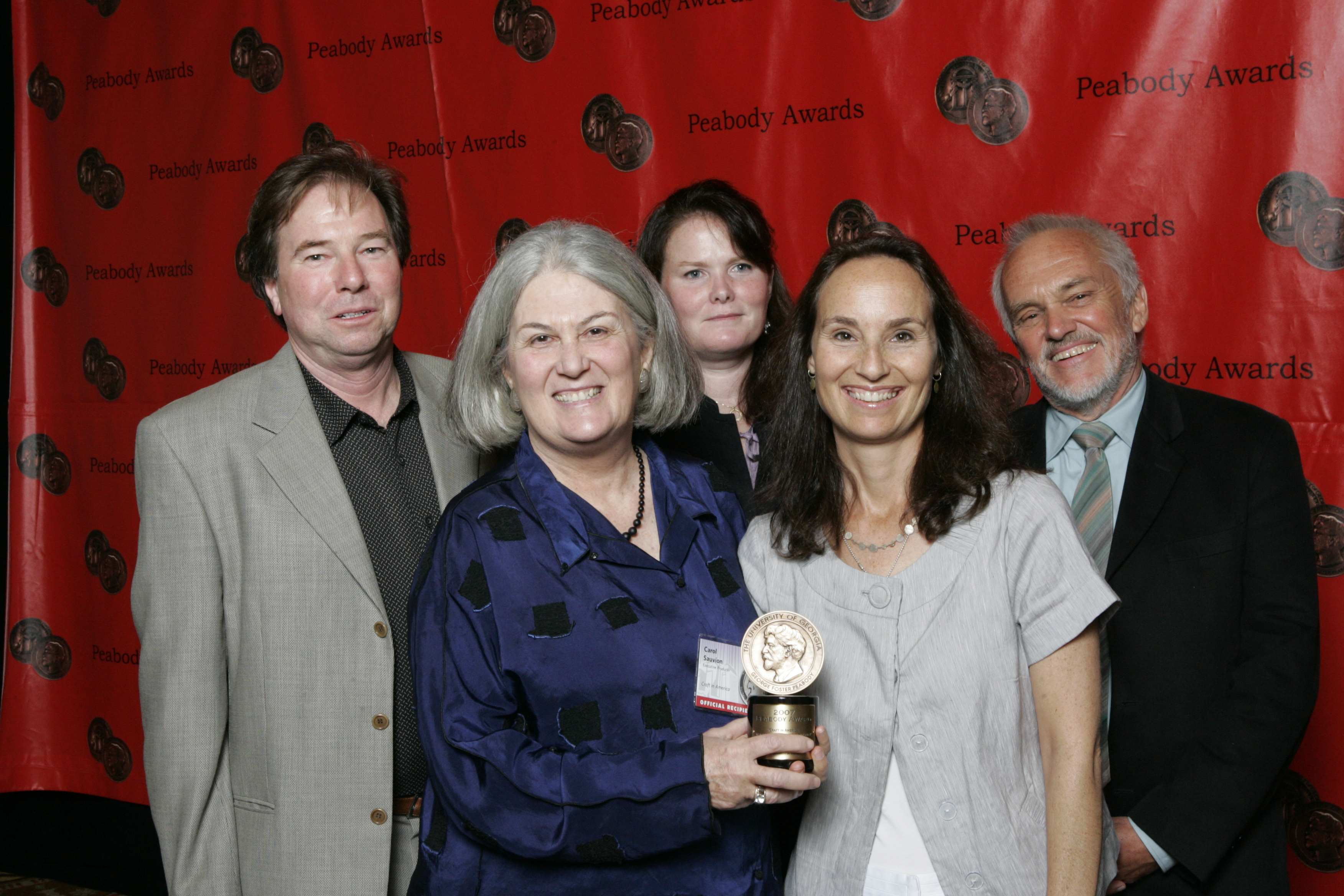 Daniel Seeger, Carol Sauvion, Hillary Birmingham, Kyra Thompson and Nigel Noble 67th Annual Peabody Awards Luncheon Waldorf=Astoria Hotel New York, NY USA June 16, 2008